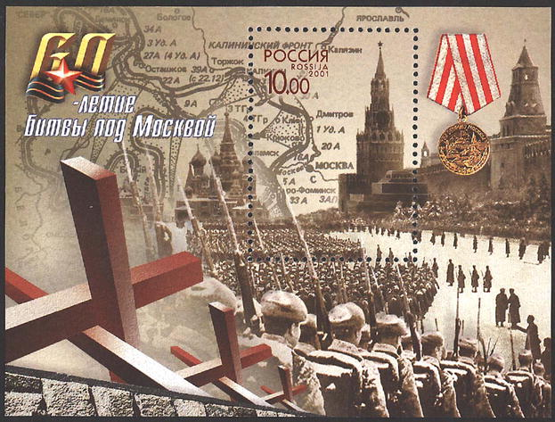 Stamps of Russia. The 60th anniversary of the battle of Moscow, 2001.